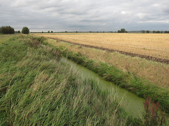 Drain by the road The Fens are drained by a large number of man-made waterways, which allow the areas to be used for arable farming.